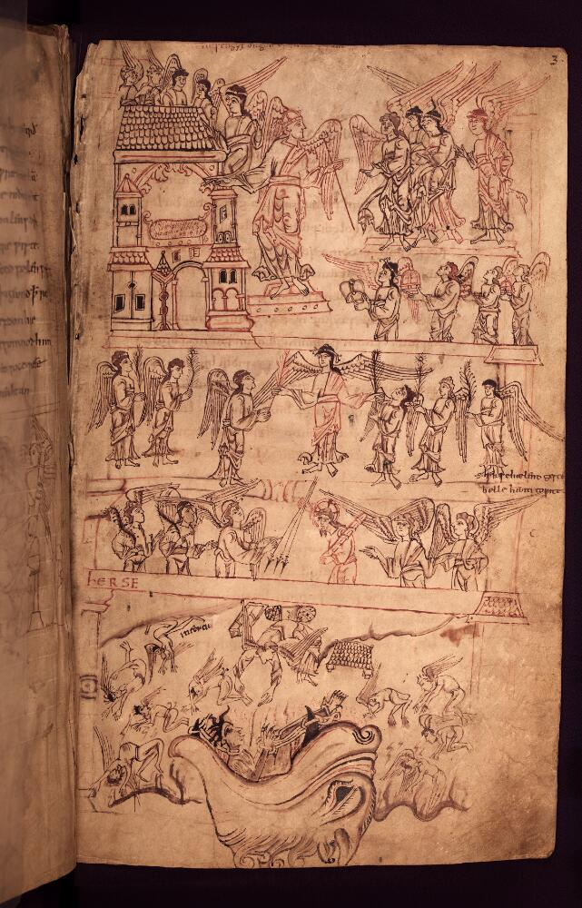 'The Cædmon Manuscript': parts of Genesis, Exodus and Daniel in Old English verse, illustrated with Anglo-Saxon drawings, c. A.D. 1000.; 3